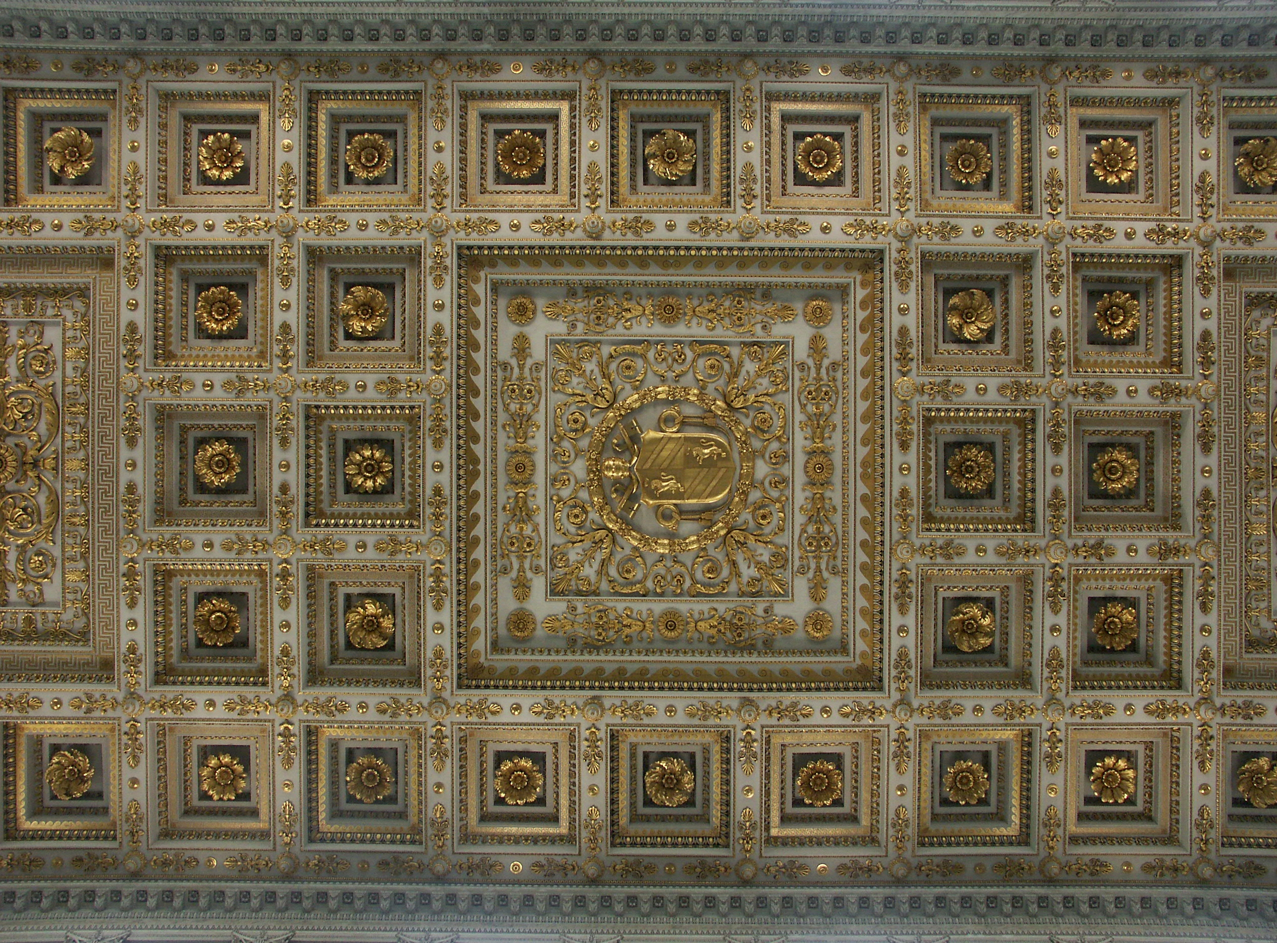 Rome, Basilica of Saint Paul Outside the Walls, Ceiling